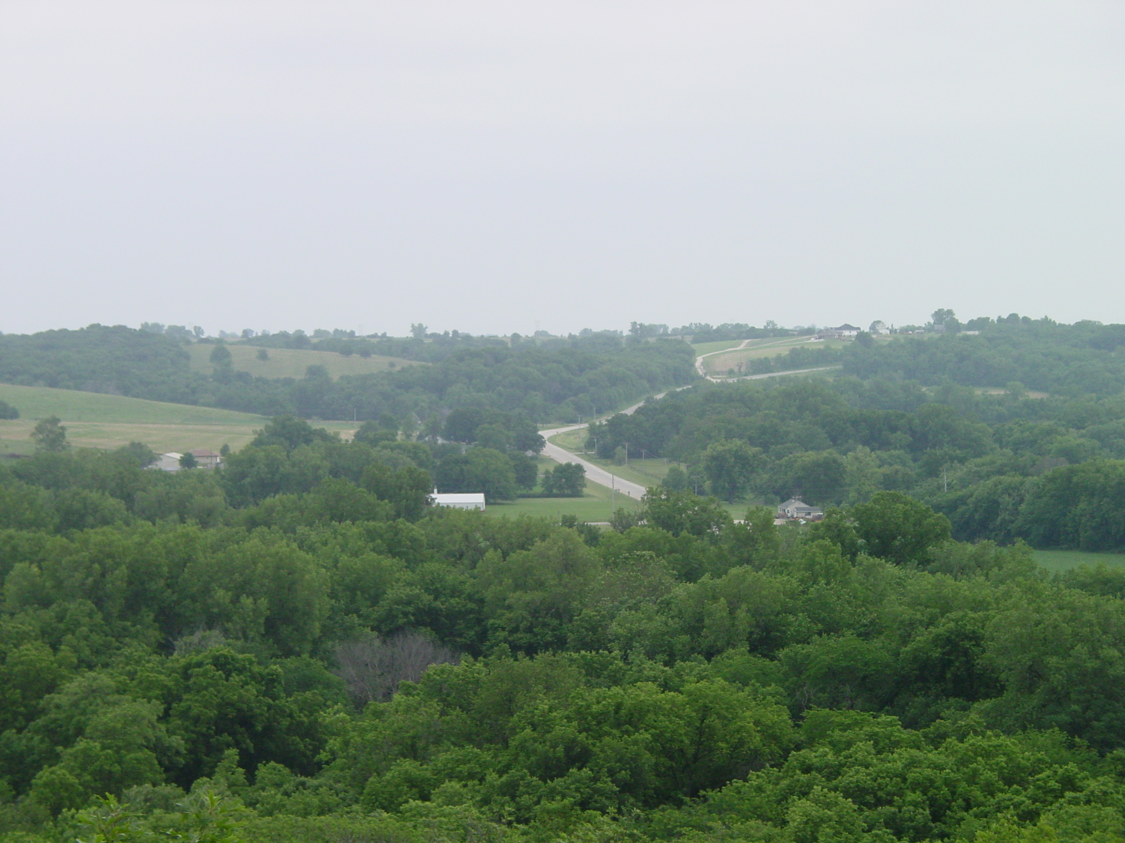 Taken by MadMaxMarchHare. View from the top of Clark Tower in Winterset, Iowa